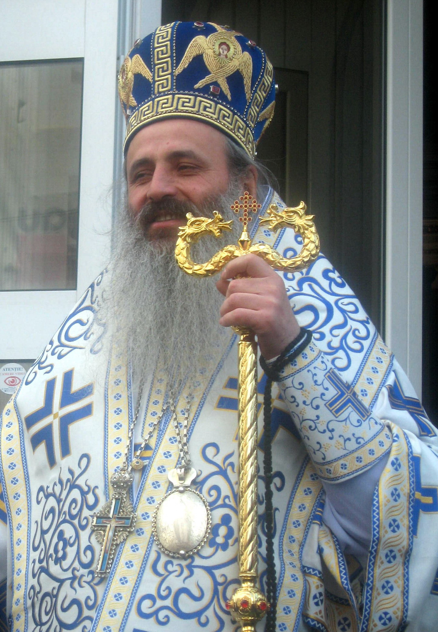 Metropolitan Teofan Savu of Moldavia and Bukovina